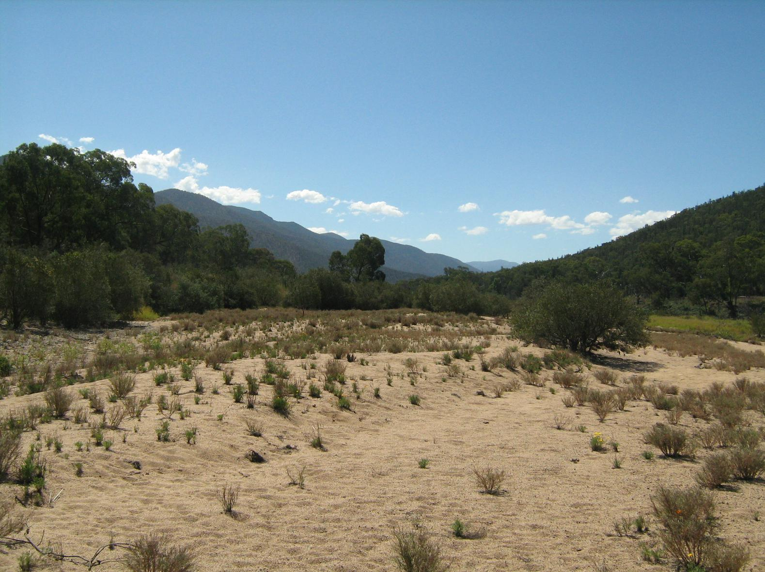 The sandy bank of the Snowy River just north of Suggan Buggan, Victoria. Before the river was dammed upstream the sandy area would have been completely under water.